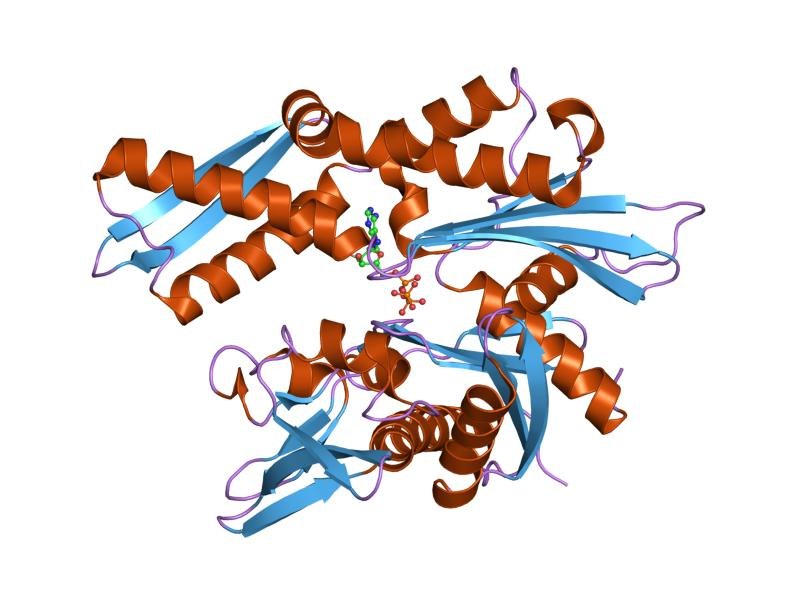 Cartoon representation of the molecular structure of protein registered with 1ngf code.